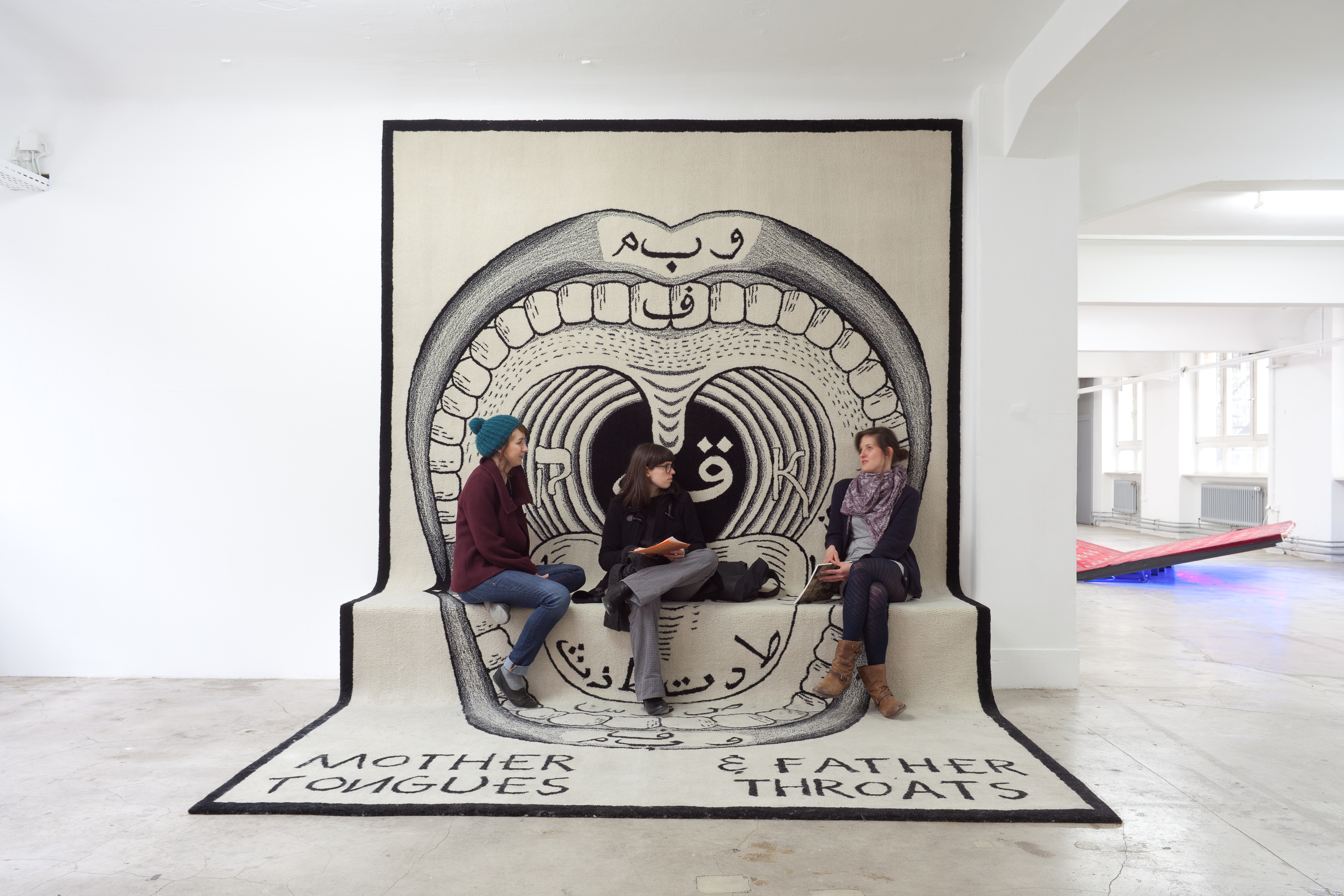 A diagram showing letters of the Arabic alphabet and the corresponding part of the mouth used to pronounce these letters, Mother Tongues and Father Throats turns to the throat as a source of mystical language – as opposed to the the tongue's more profane, transactional role. Here, the artists have added the letters for guttural phonemes [gh] and [kh] in Cyrillic and Hebrew as a nod to these letters' importance across disparate fields such as Russian futurism, Kabbalist gematria, and Sufi exegesis.